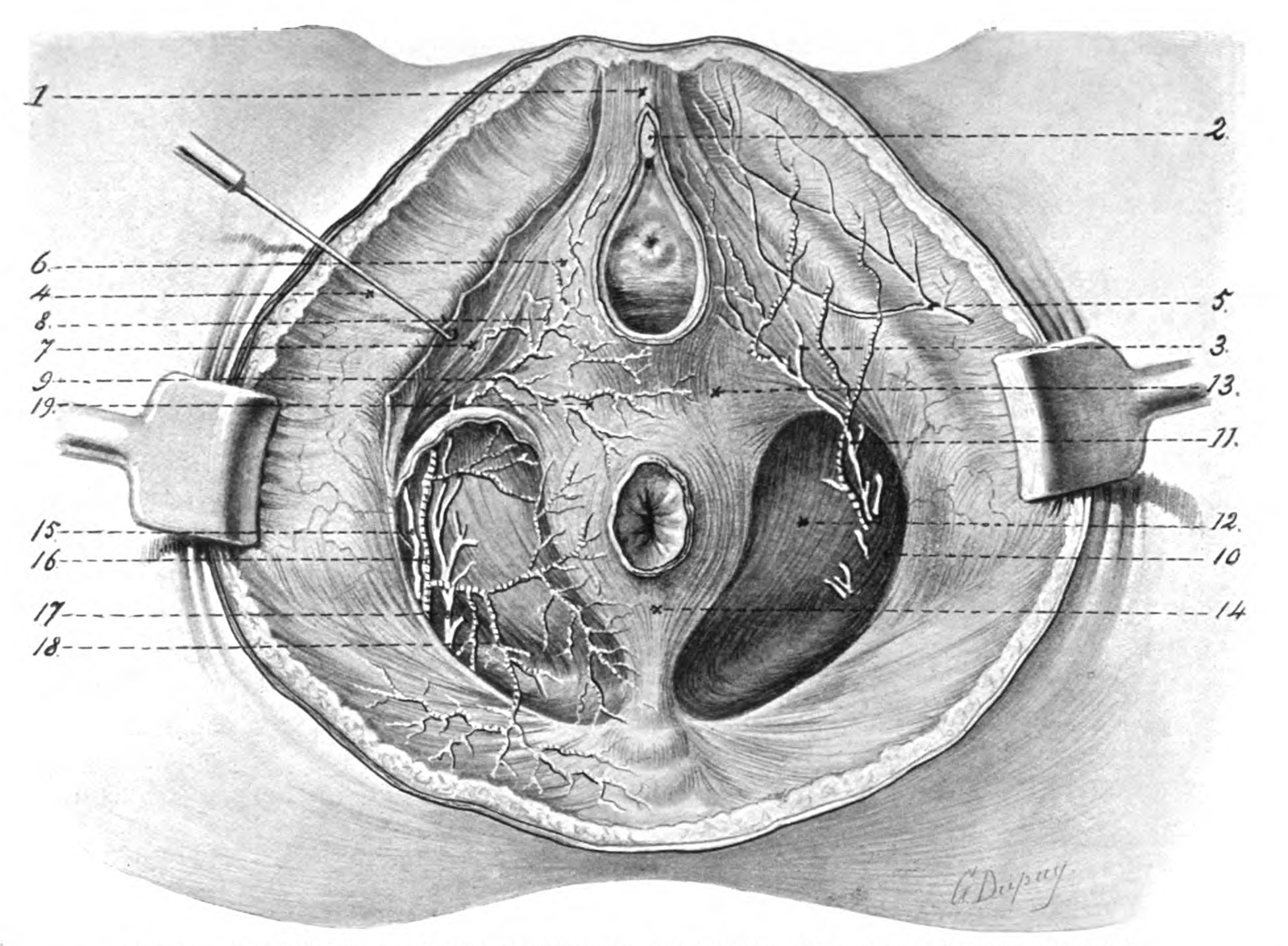 FIG. 3.—-SUPERFICIAL PERINEAL INTERSPACE OF FEMALE PERINEUM. (AFTER DEAVER.) 1, Suspensory ligaments of clitoris; 2, glans clitoridis ; 3, posterior superﬁcial perineal nerve; 4, fascia lata; 5, inferior pudendal nerve; 6, sphincter vaginac muscle ; 7, erector clitoridis muscle; 8, superﬁcial perineal artery; 9, transverse perineal artery ; 10, obturator fascia; 1 1, anterior superﬁcial perineal nerve ; 12, anal fascia; 13, deep layer of superﬁcial fascia ; 14, external sphincter ani muscle; 15, dorsal nerve of clitoris ; 16, internal pudic artery ; 17, perineal nerve ; 18, inferior hemorrhoidal artery ; 19, transverse perineal muscle.